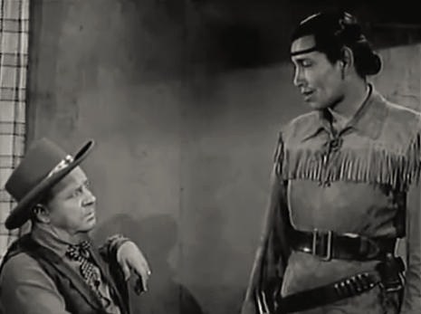 Harry Harvey (left) & Jay Silverheels in the TV-series The Lone Ranger, episode The Renegades (cropped screenshot)